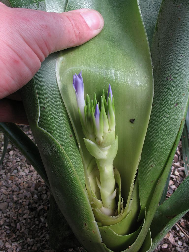 Neoregelia bahiana in cultivation at the Botanical Garden of Heidelberg, Germany.